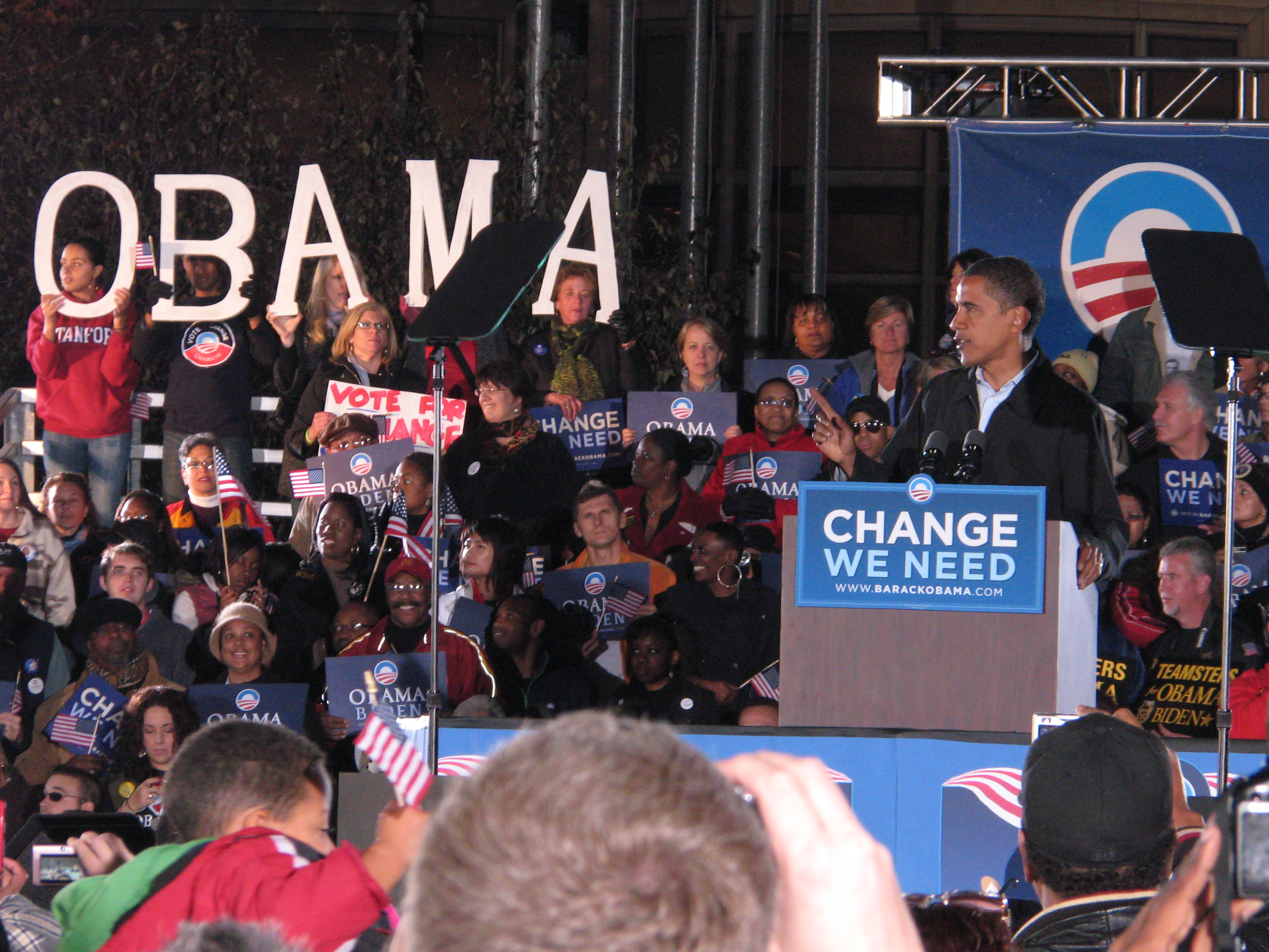 Barack Obama rally with Bruce Springsteen in